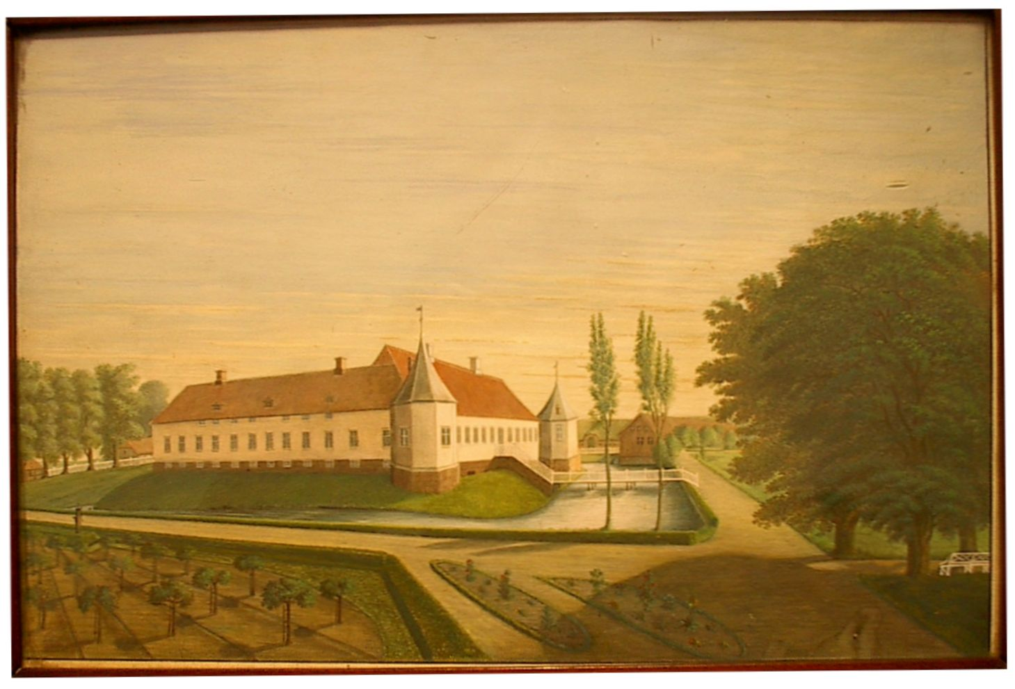 Frijsenborg, Anonymous, after 1830, family-owned